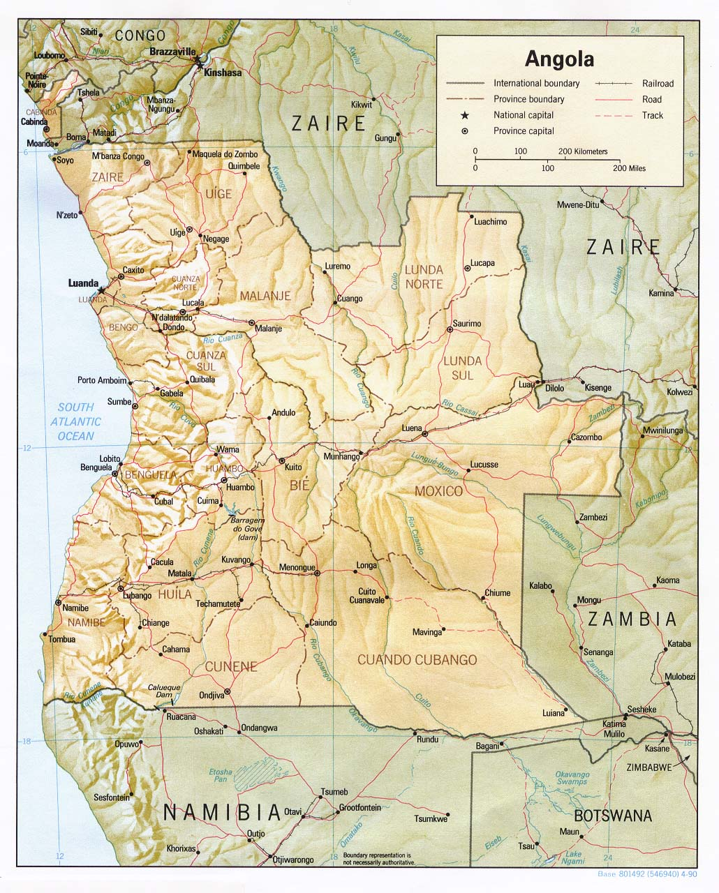 Shaded relief map of Angola.